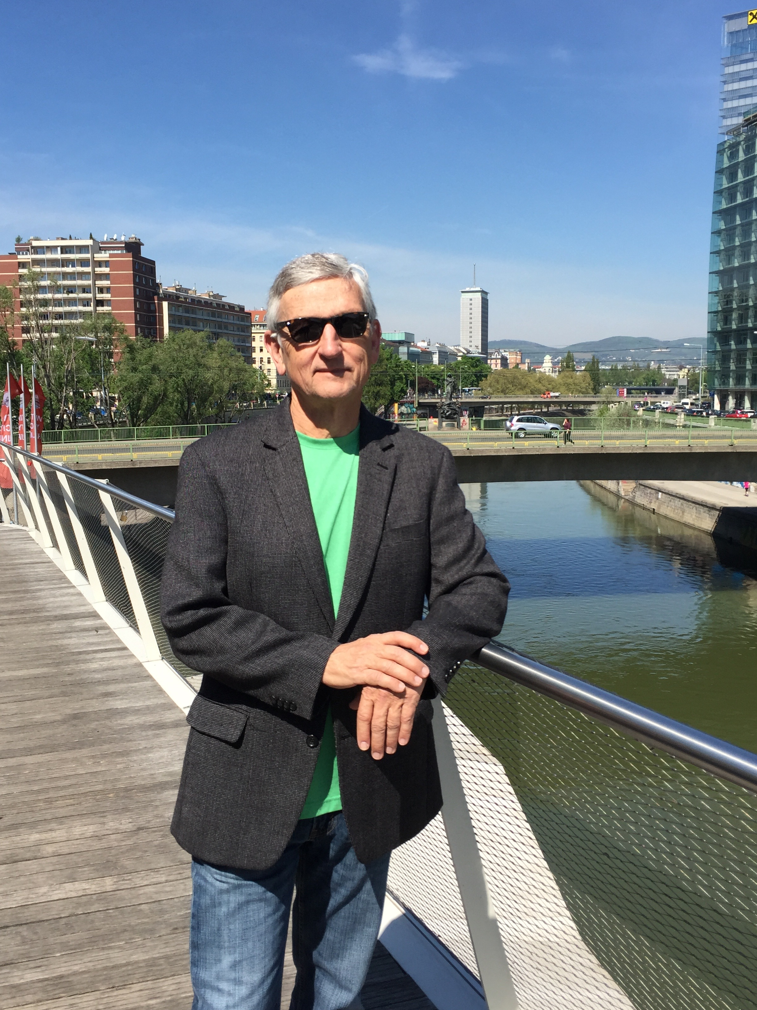 David Gollaher